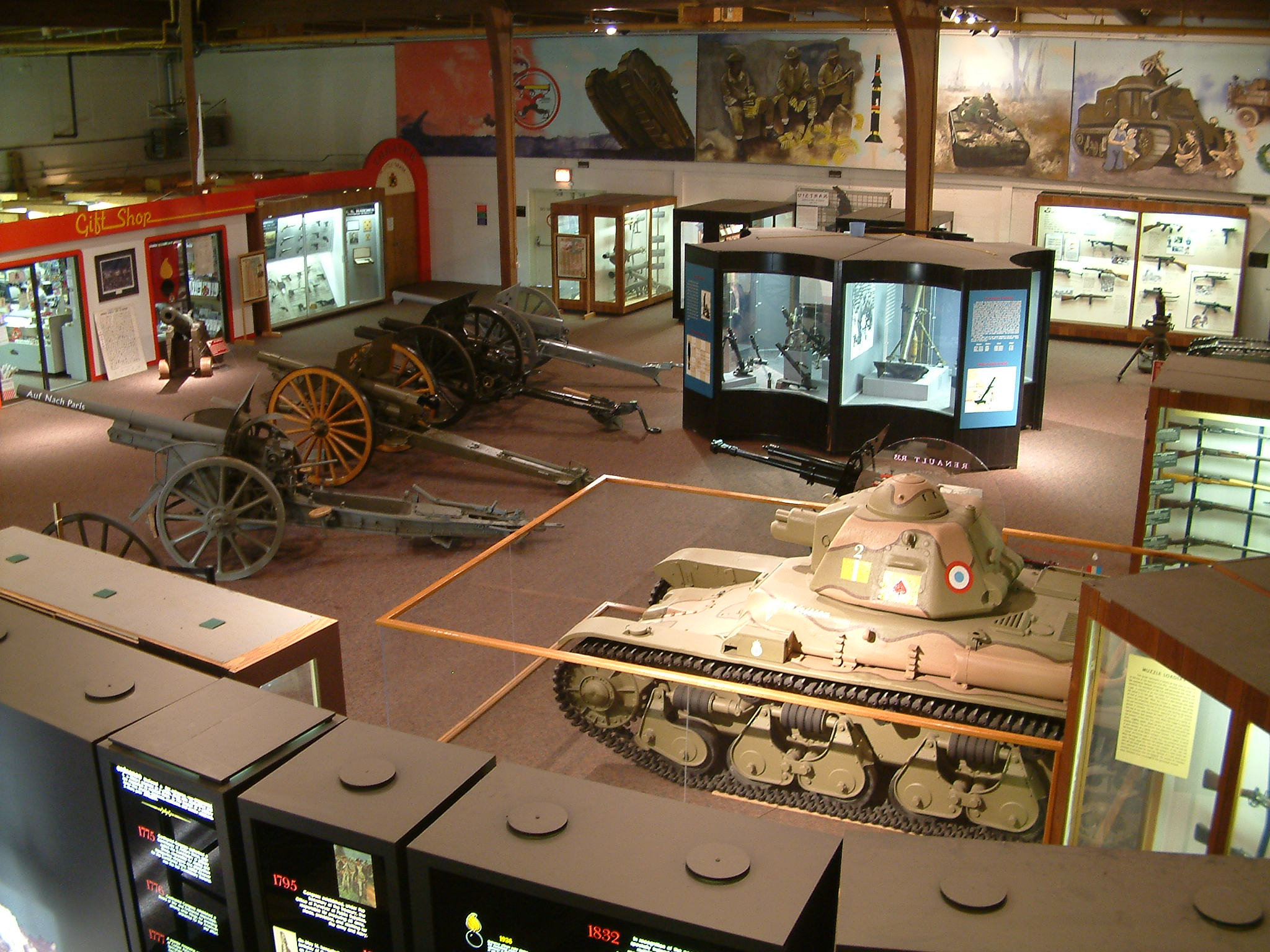 United States Army Ordnance Museum. Indoor Museum, includes hundreds of firearms. 1.1MB @ 2048 x 1536 Indoor Museum